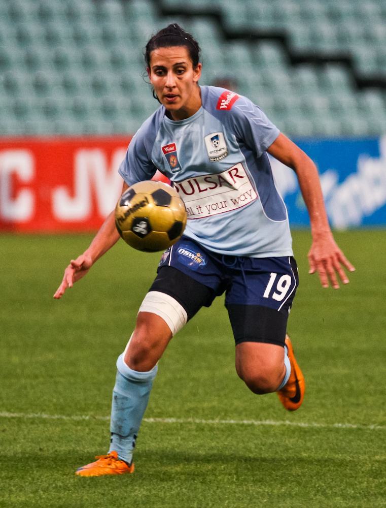 Leena Khamis playing for Sydney FC in the W-League against Adelaide United.